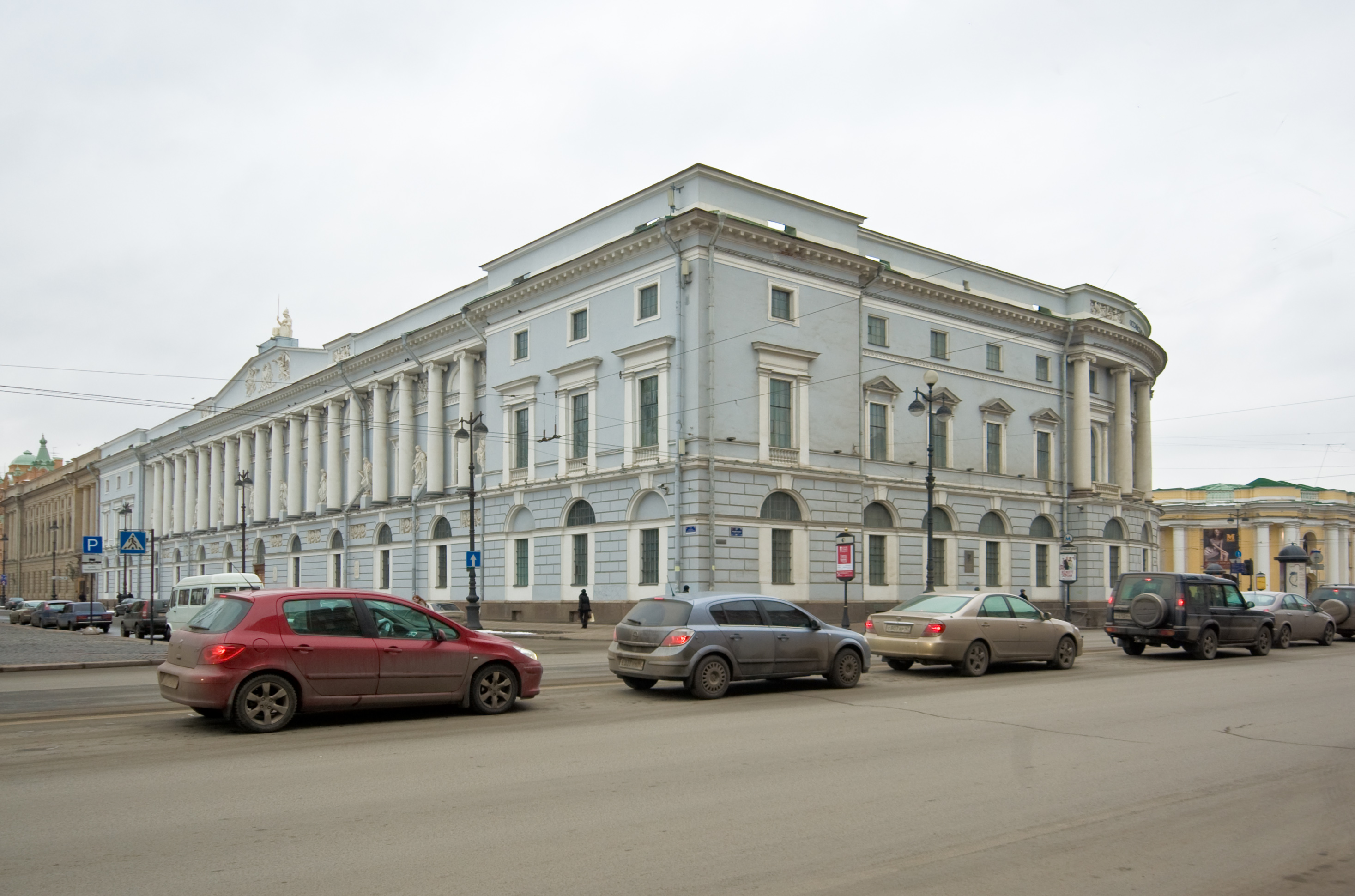 Saint Petersburg (Russia), Nevsky Avenue.